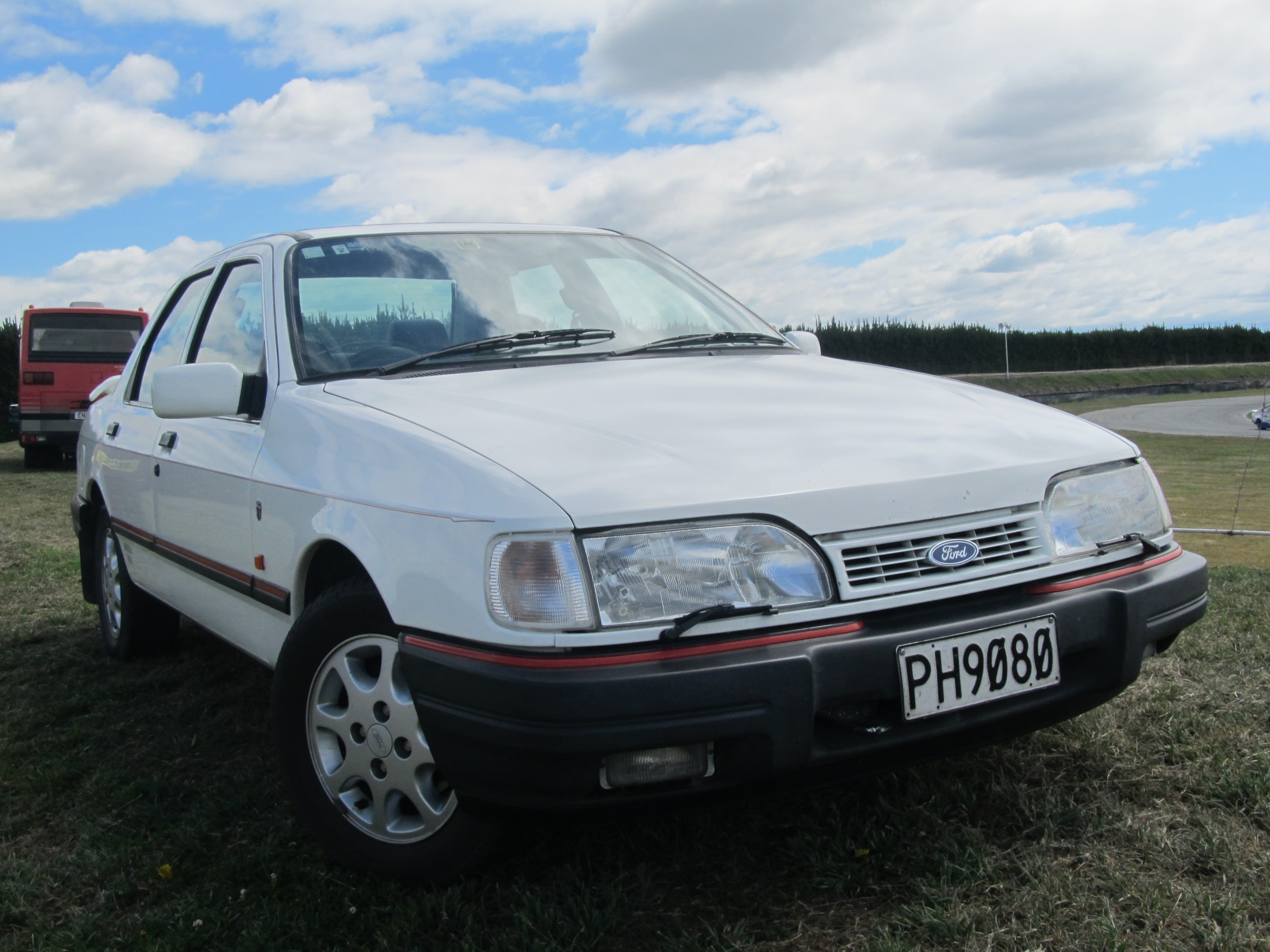 PH9080 This was a very clean Sierra - could have just come from the showroom! I like this shot - the sky looks good in it, along with the car directly in the foreground. I particularly like the red pinstriping... By 1990 the Sierra had been reintroduced to NZ after an absence of 3 years, but they were more upmarket models and were far nicer than the Mazda-based Telstar. Originally, in 1984, the MkI Sierra estate was assembled locally, but these later ones were built-up imports from Belgium.